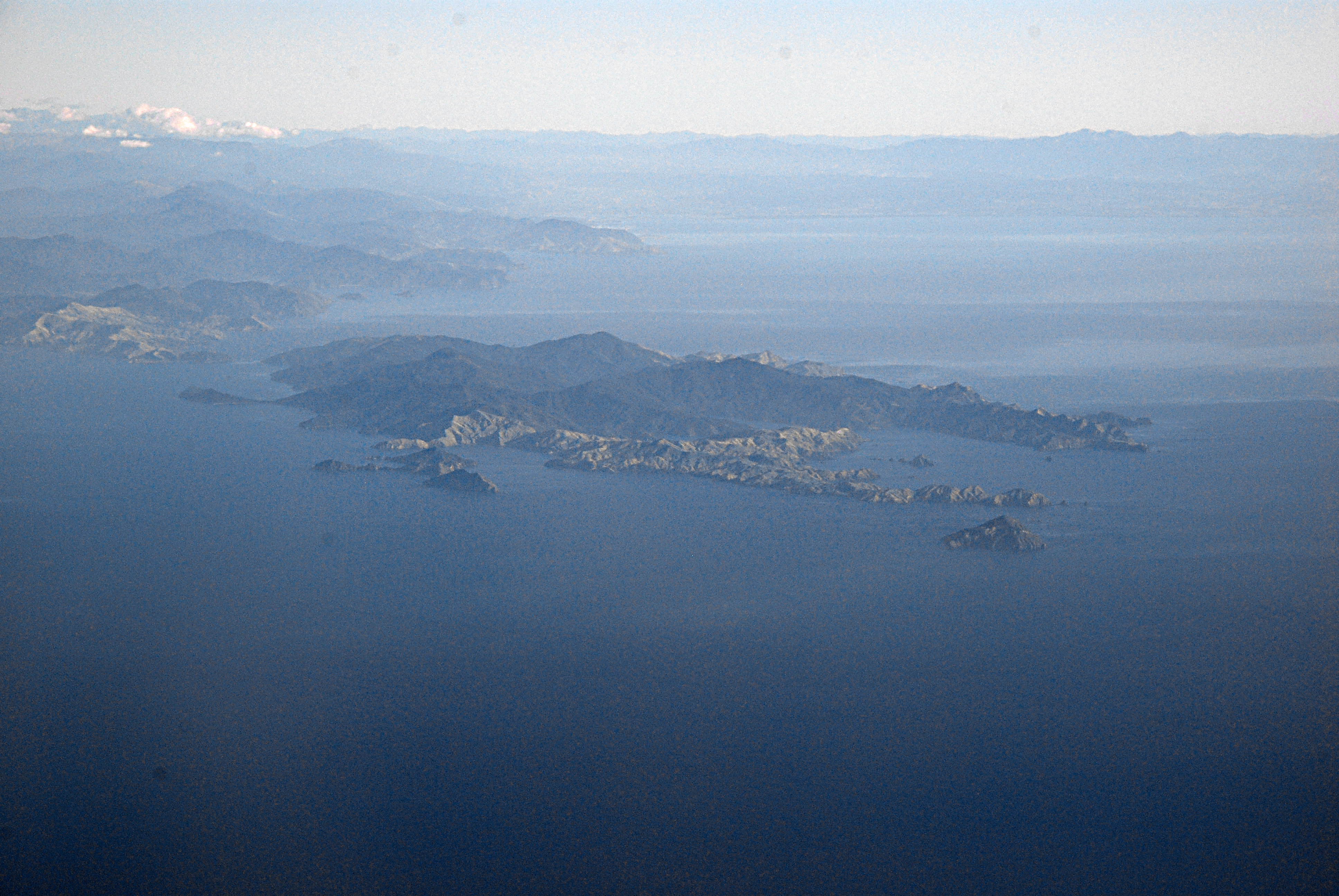 En route Auckland to Wellington